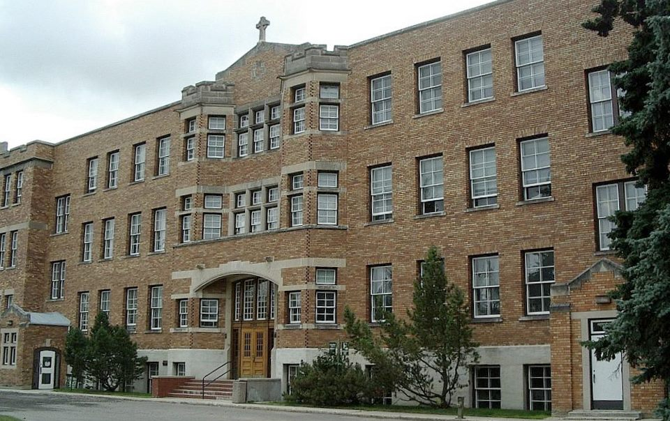 Campion College Regina corner of Albert Street and 23rd Avenue. Boys' high school run by the Jesuits and closed after a university college was opened by that name and with that staff at the University of Regina